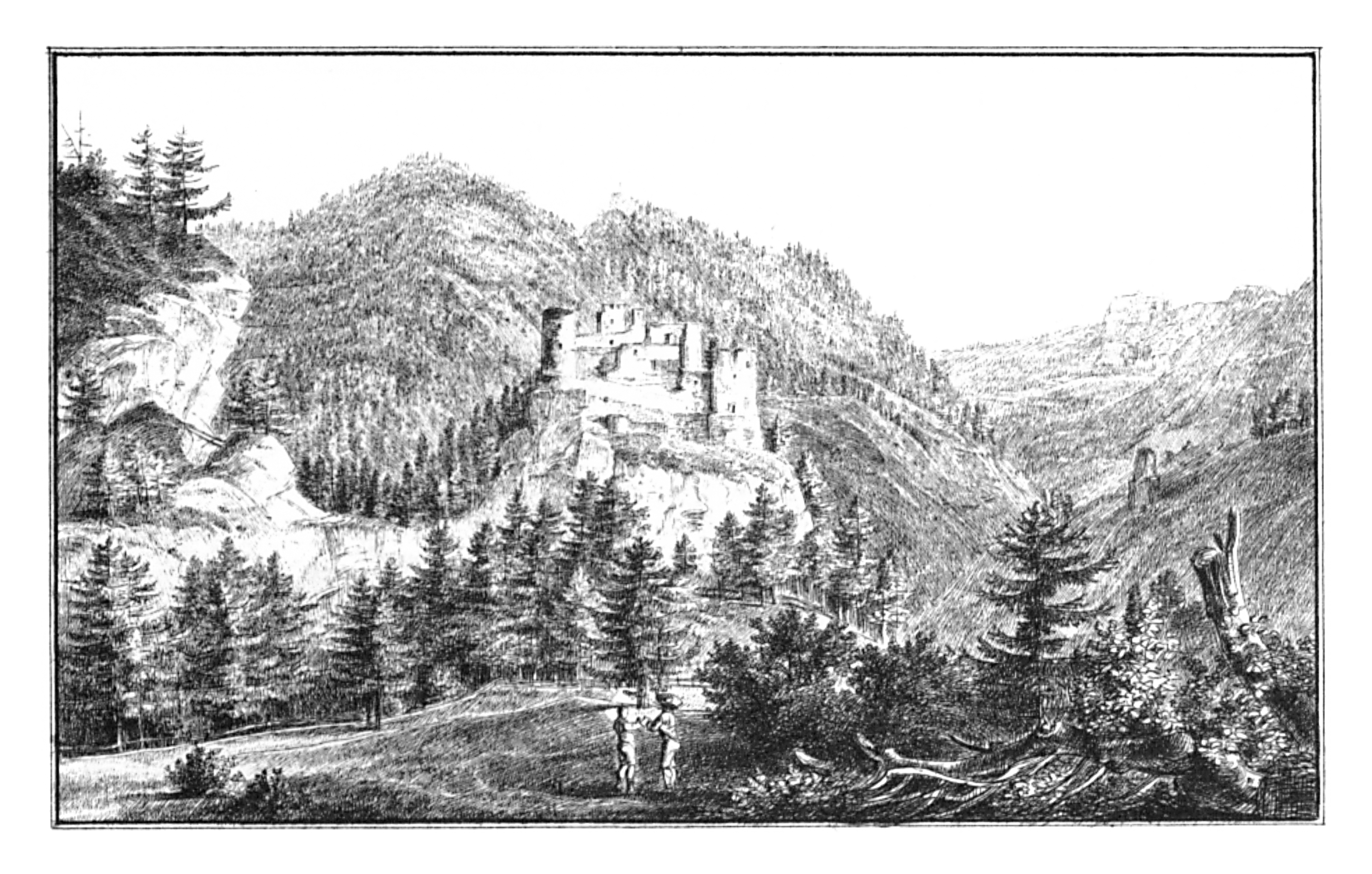 J. F. Kaiser - lithographirte Ansichten der Steyermärkischen Städte, Märkte und Schlösser, Graz 1824-1833 Joseph Franz Kaiser (1786–1859) Alternative names J. F. KaiserDescriptionAustrian printer and editorDate of birth/death 11 March 1786 19 September 1859Location of birth/death Graz (Styria) GrazAuthority control : Q1499963 VIAF: 30629353 ISNI: 0000 0000 3083 0153 LCCN: n87141671 GND: 129880159 NLP: A24960305 WorldCat creator QS:P170,Q1499963 . Scanprojekt Community Projektbudget 2012 This scan or this PDF-file was created within the GLAM-project Bookscanning, supported by Wikimedia Germany and Wikimedia Austria as a part of the community-project to capture books, documents and pictures which are not eligible to copyright or for which the copyright has expired. This document describes or depicts an object which is located in Austria today. Send requests for uncompressed scans to Hubertl. This work is in the public domain in its country of origin and other countries and areas where the copyright term is the author's life plus 100 years or less. You must also include a United States public domain tag to indicate why this work is in the public domain in the United States. This file has been identified as being free of known restrictions under copyright law, including all related and neighboring rights.